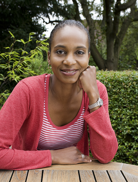 Image of Laverne Antrobus 2009